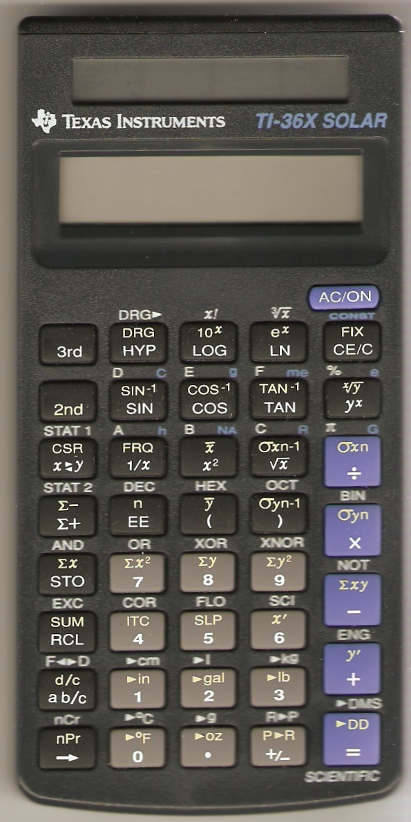 My scan of TI-36X Solar rev1993 Calculator